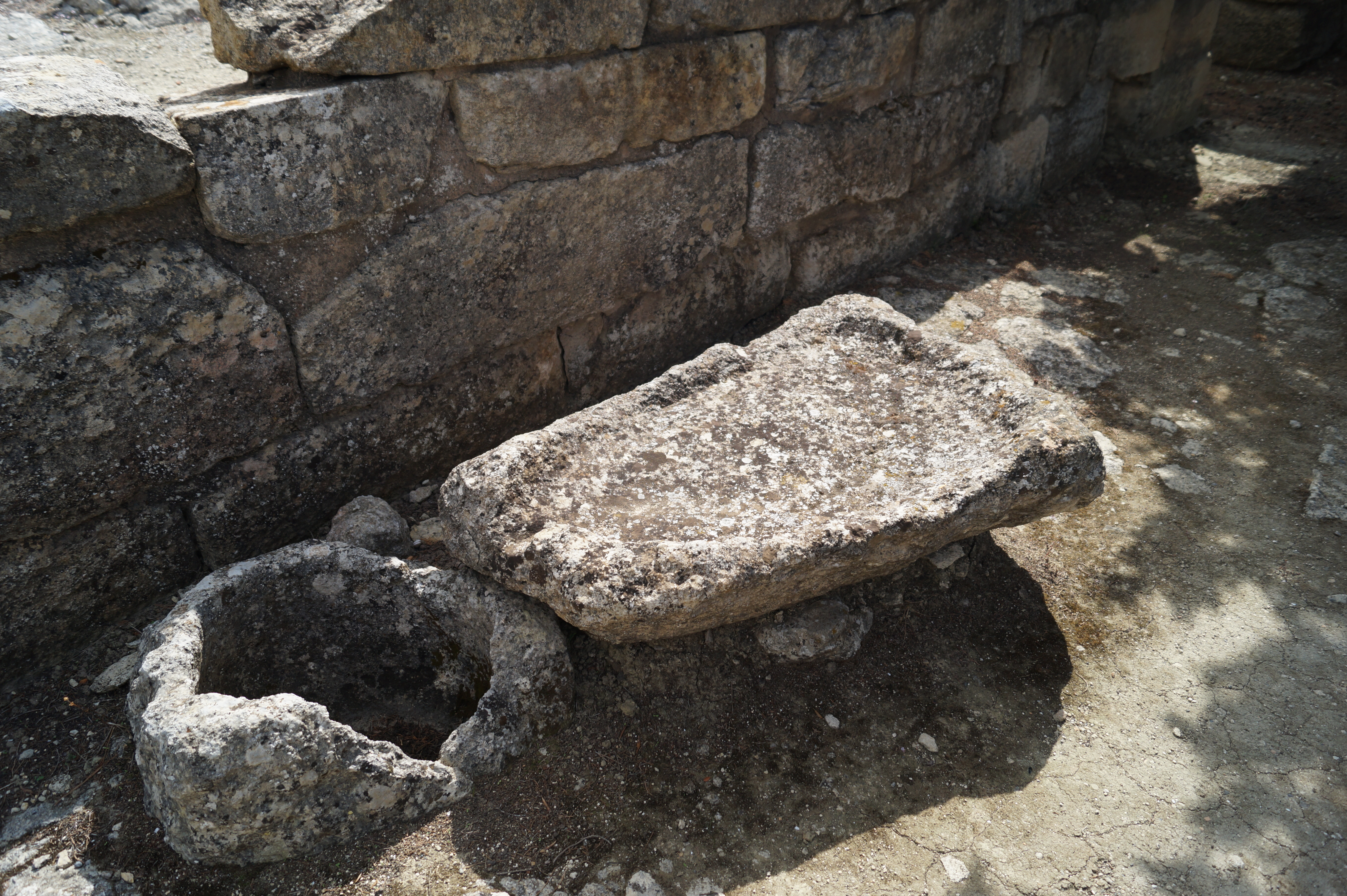 Crete, Minoan villa of Vathypetro: Minoan oil mill at the west courtyard.